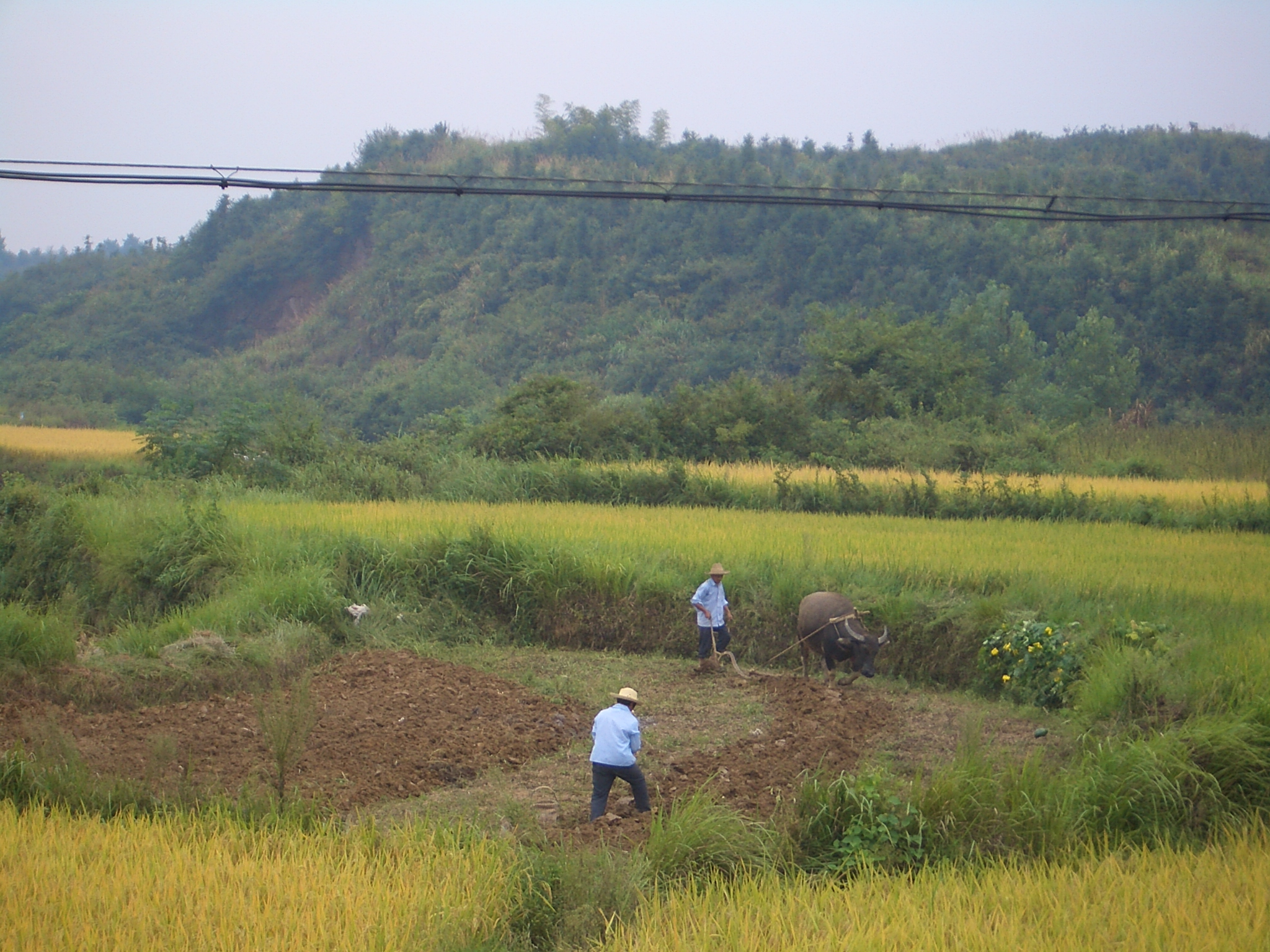 Field work (ploughing with buffalos) in the fields along Hubei Provincial Highway S208, just south of the Xianning central city.